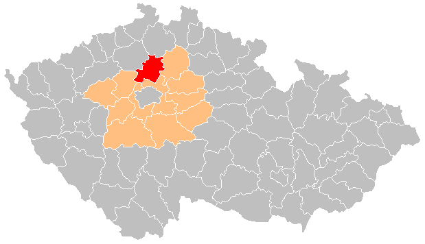 Mělník District within Central Bohemian Region. Current borders of districts since January 1, 2007.